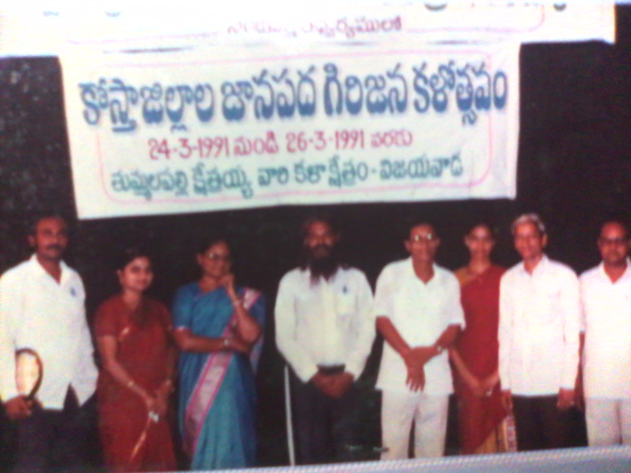 1991 మార్చి నెలలో జరిగిన జానపద గిరిజన కళోత్సవం సభ శ్రీ తుమ్మలపల్లి క్షేత్రయ్య కళా క్షేత్రం విజయవాడ